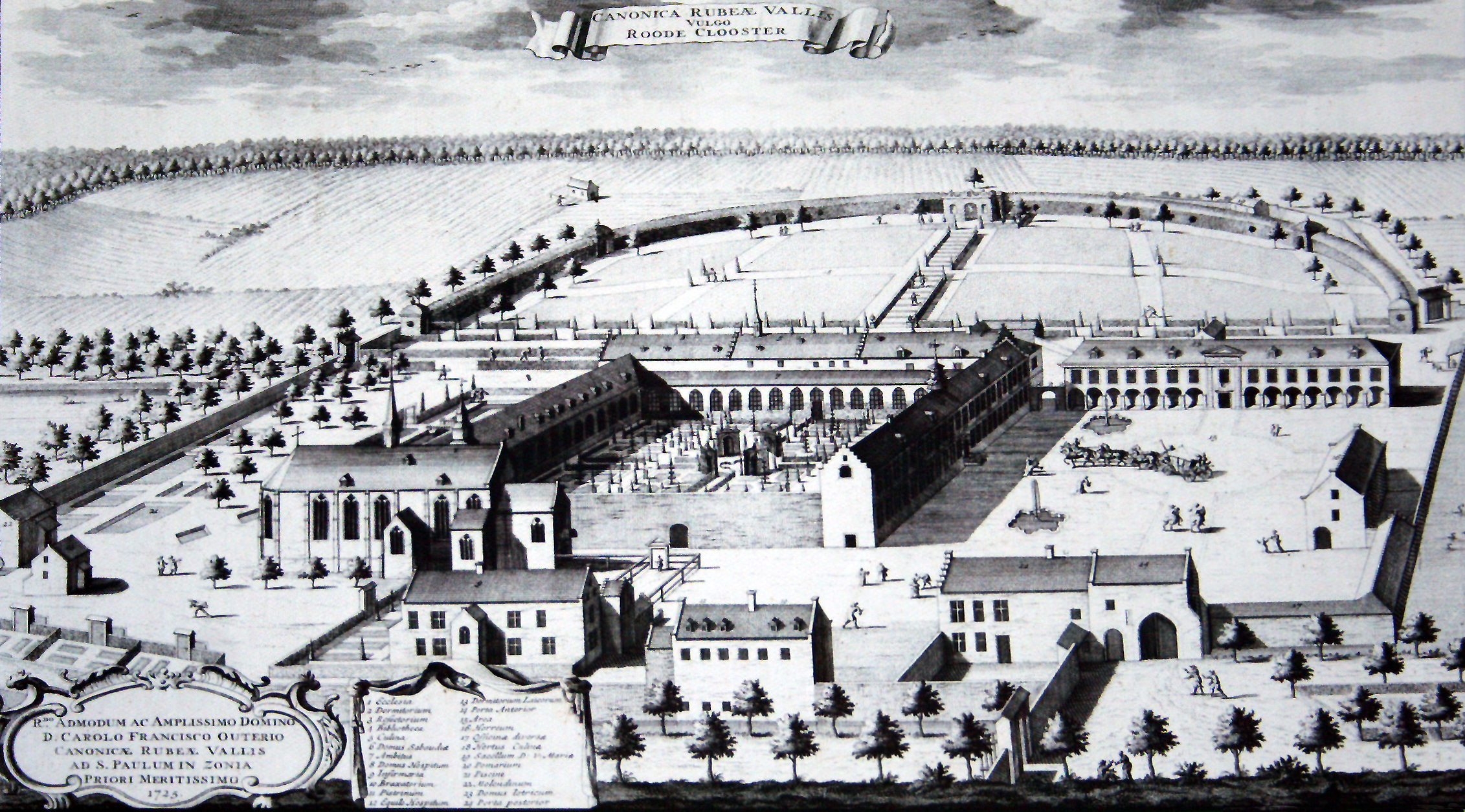 Auderghem (Belgium), map of the Red Cloister abbey (1725).